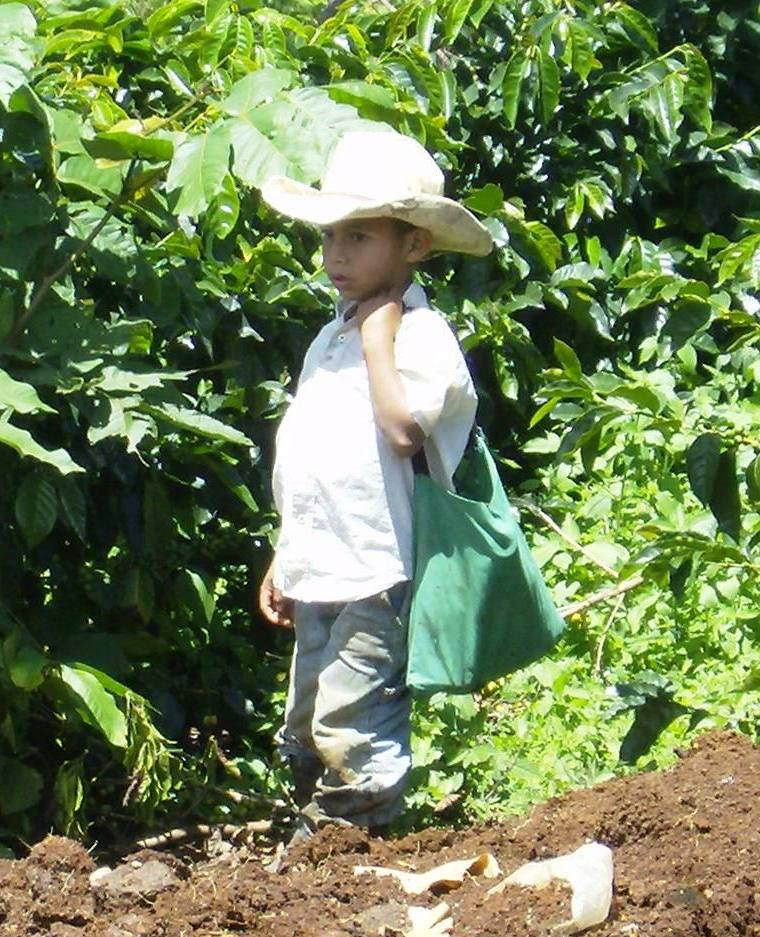 San Andrés, municipality in the Honduran department of Lempira.